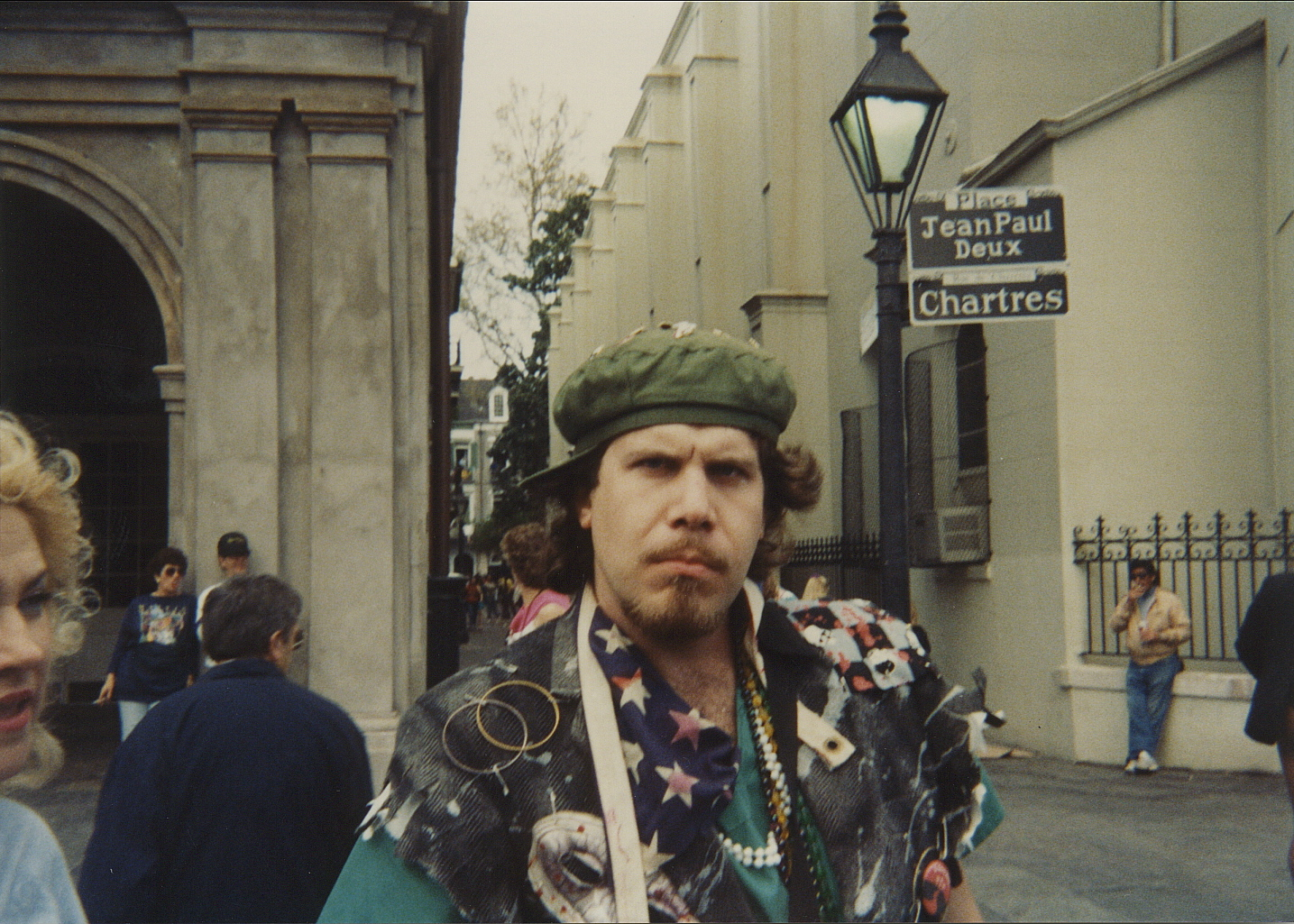 J.K. in Jackson Square, Mardi Gras Day 1990. Photographer/artist J.K. Potter.